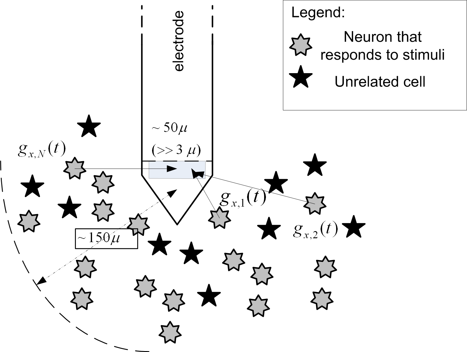 Extracellular measurement capture lower spike amplitudes, often from several sources (depending on the size of the electrode and its proximity to each spiking source). Despite the degraded amplitude of these measurements, they have some advantages: 1) They are experimentally easier to obtain 2) Robust and last for a longer time. 3) Capturing the activity of several neurons can potentially emphasize the dominant effect over accidental phenomenon due to the inherent spatial averaging.